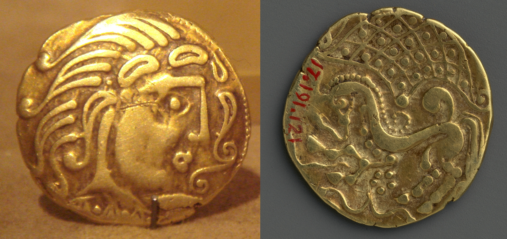 Gold stater (c. 125-100 BC) attributed to the Parisii. MET nr. 17.191.121 An androcephalous horse led by a charioteer extending a vexillum in front of it, riding over a fallen enemy. Gift of J. Pierpont Morgan, 1917 dimensions: 2.1 × 2.3 × 0.2 cm, weight: 6.8 g. Numerous coins of this type (118 out of 152 items) form part of the Les Sablons hoard of the 1st century BC, discovered in Le Mans between 1991 and 1997, associated with the Cenomani.